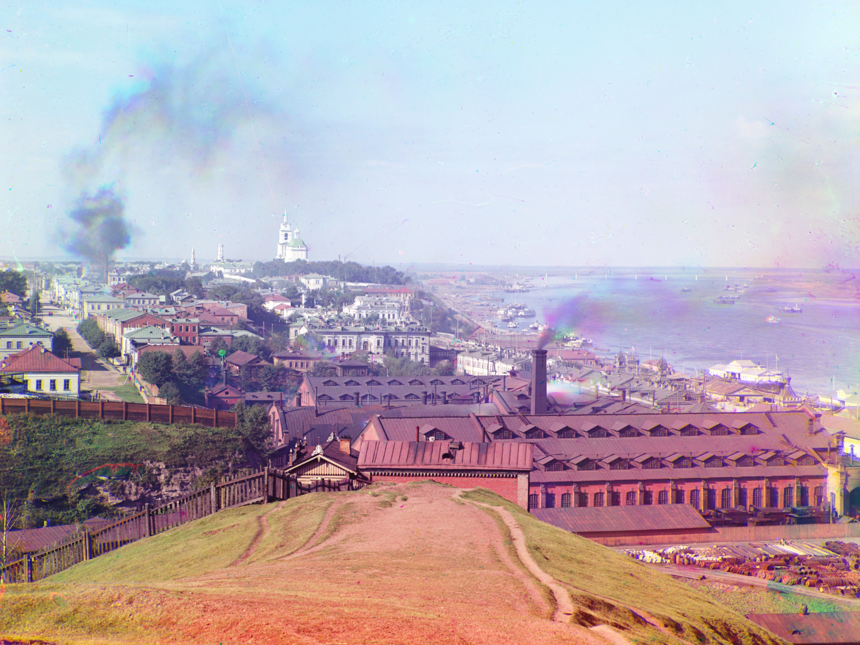 Sergei Mikhailovich Prokudin-Gorskii - General view of the city of Perm from Gorodskie Gorki. 1910.